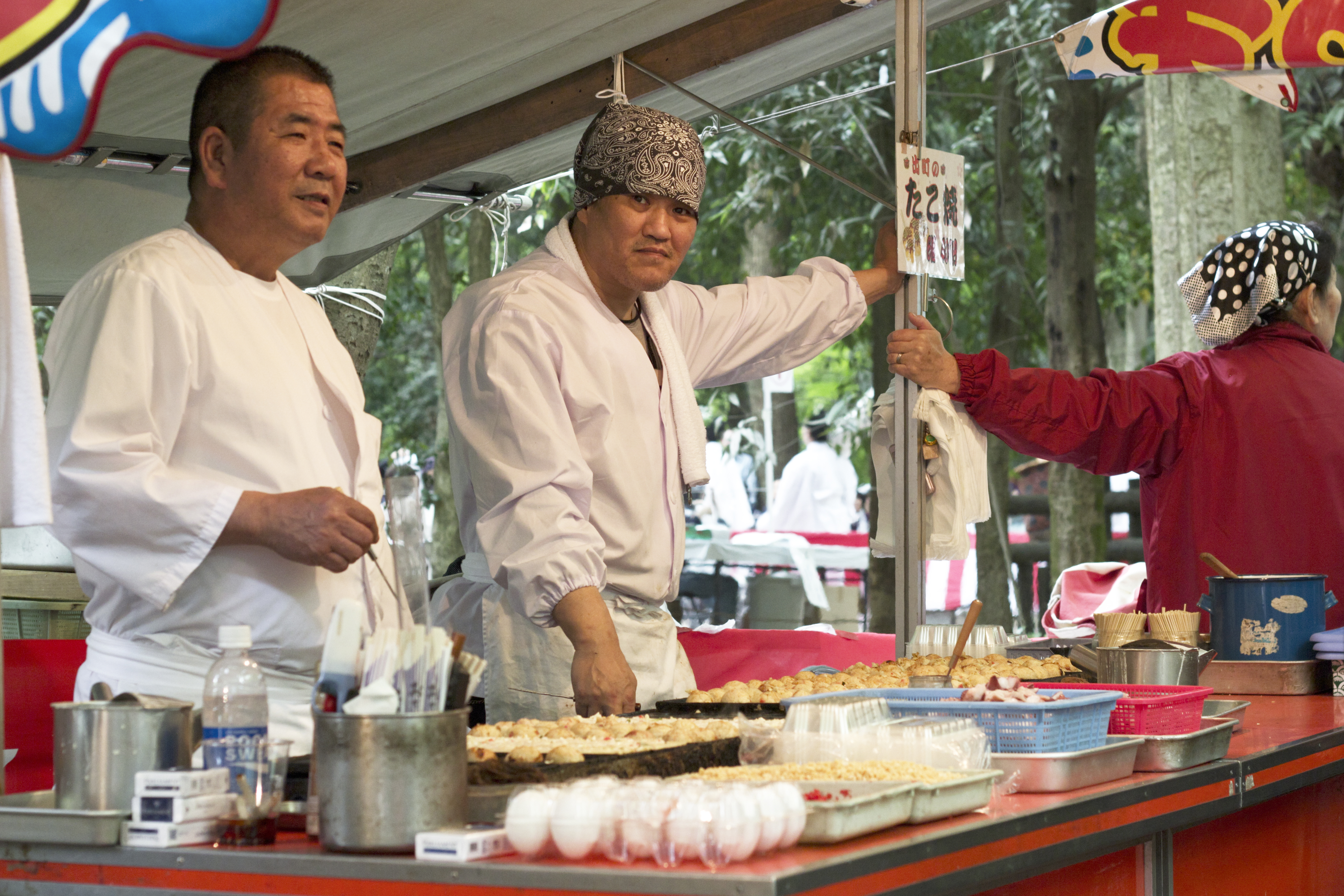 Tekiya (peddlers) at the Shimogamo Jinja during the Aoi Matsuri.